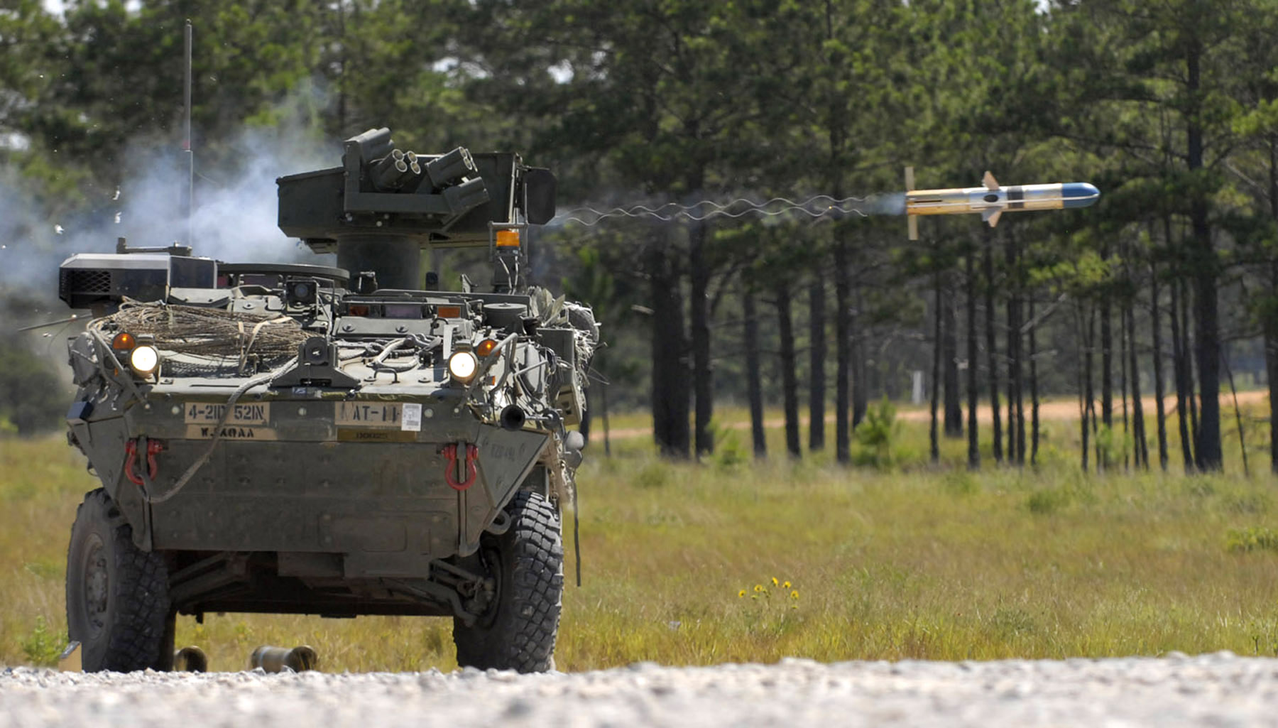 A Stryker vehicle crew belonging to the 4th Brigade, 2nd Infantry Division, fires a TOW missile during the brigade's rotation through Fort Polk's, Joint Readiness Training Center. See more at Fort Lewis Soldiers harness new skills